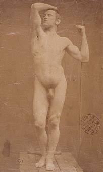 Gaudenzio Marconi (1841-1885), Auguste Neyt, 22-yr-old model for the sculpture L'age d'airain by Auguste Rodin (1877). Below, the picture of the plaster form for the sculpture.